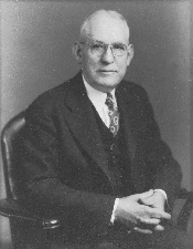 Former United States Representative from Texas Eugene Black.